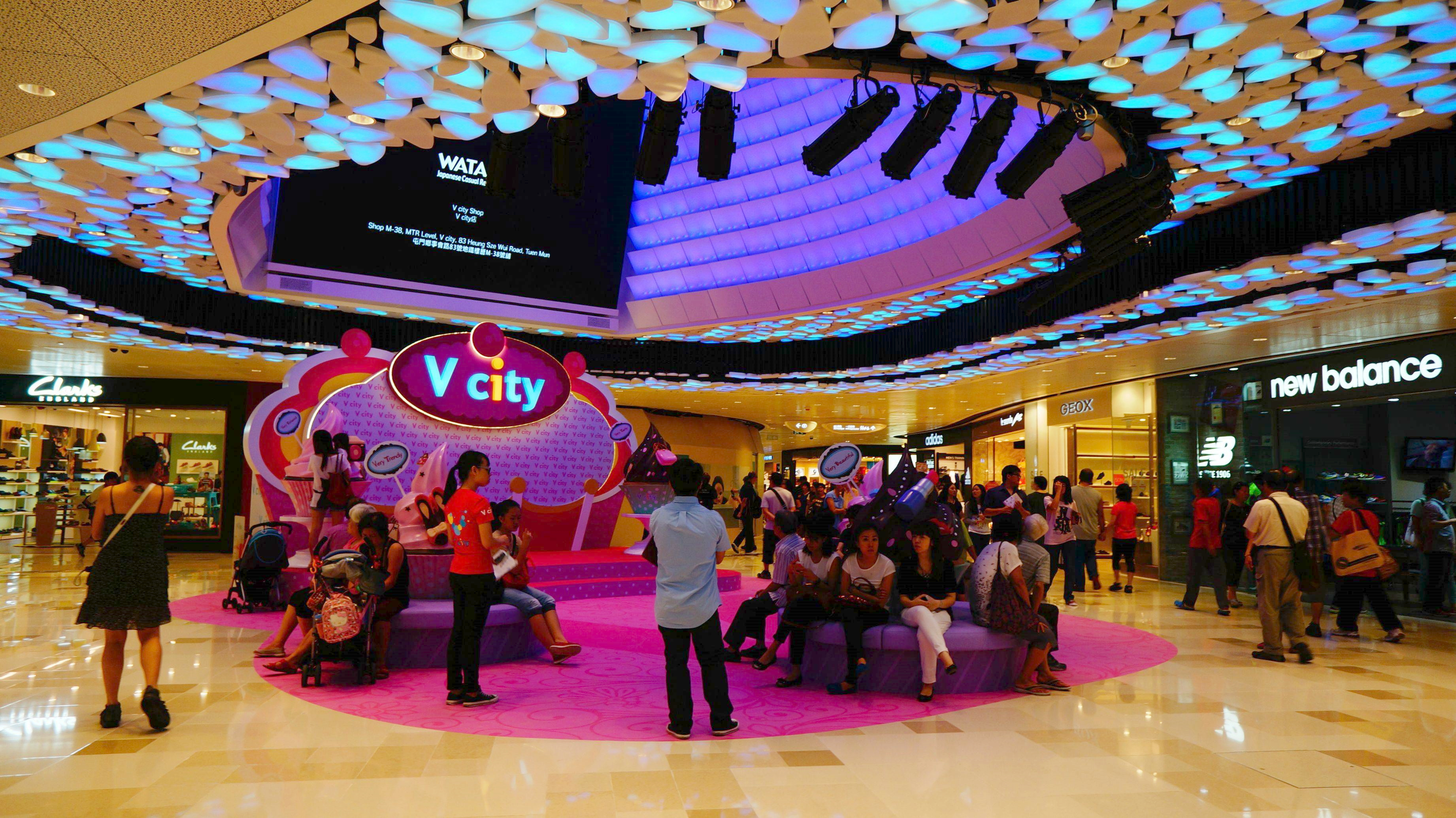 V City ATRIUM